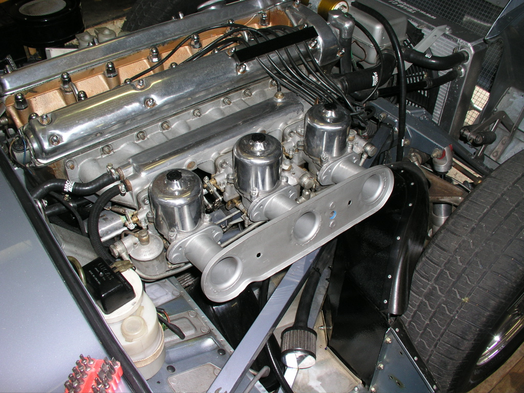 Three Skinner's Union (SU) carburetors as installed on an E-type Jaguar's XK6 Engine.